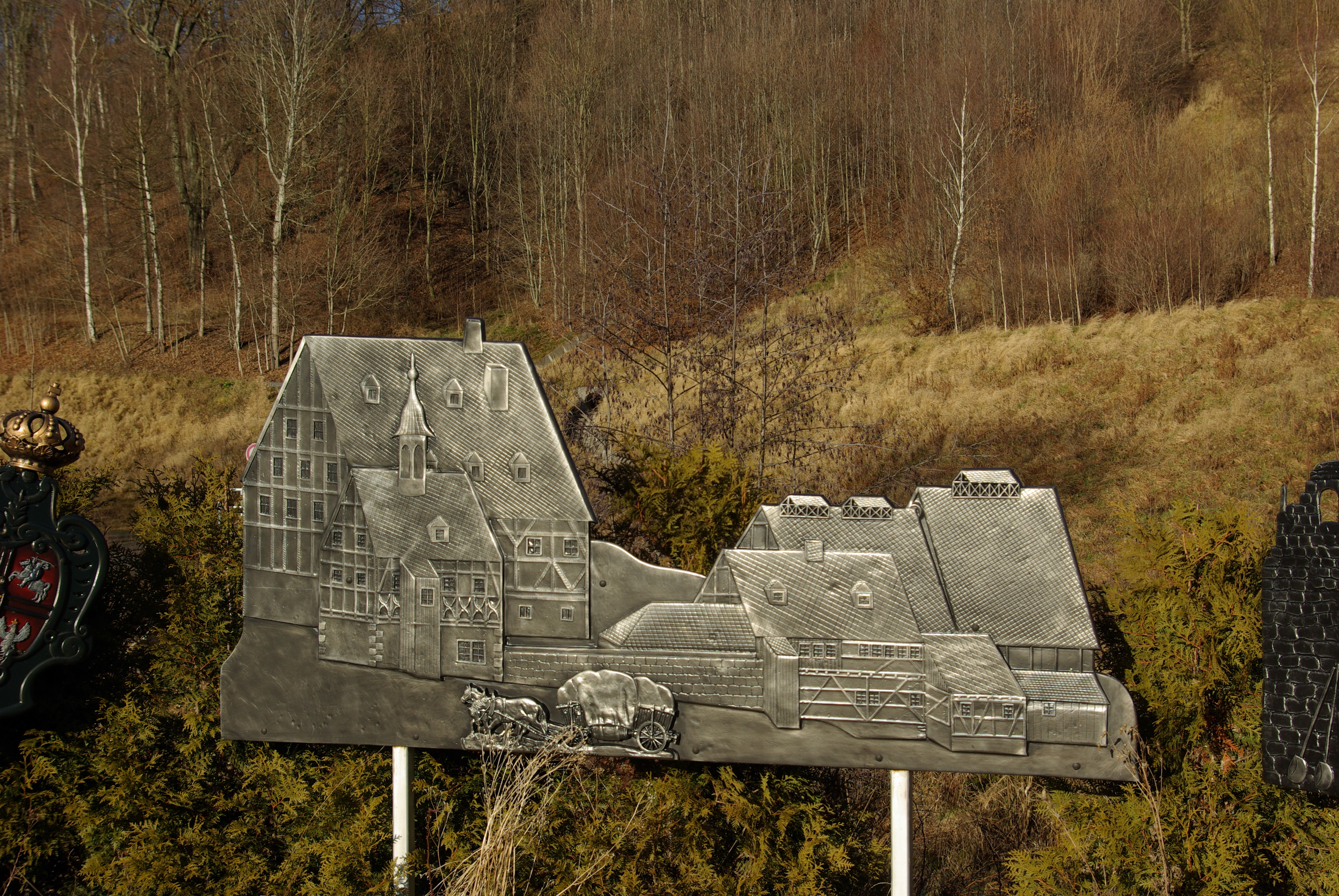 Blaufarbenwerk Oberschlema3